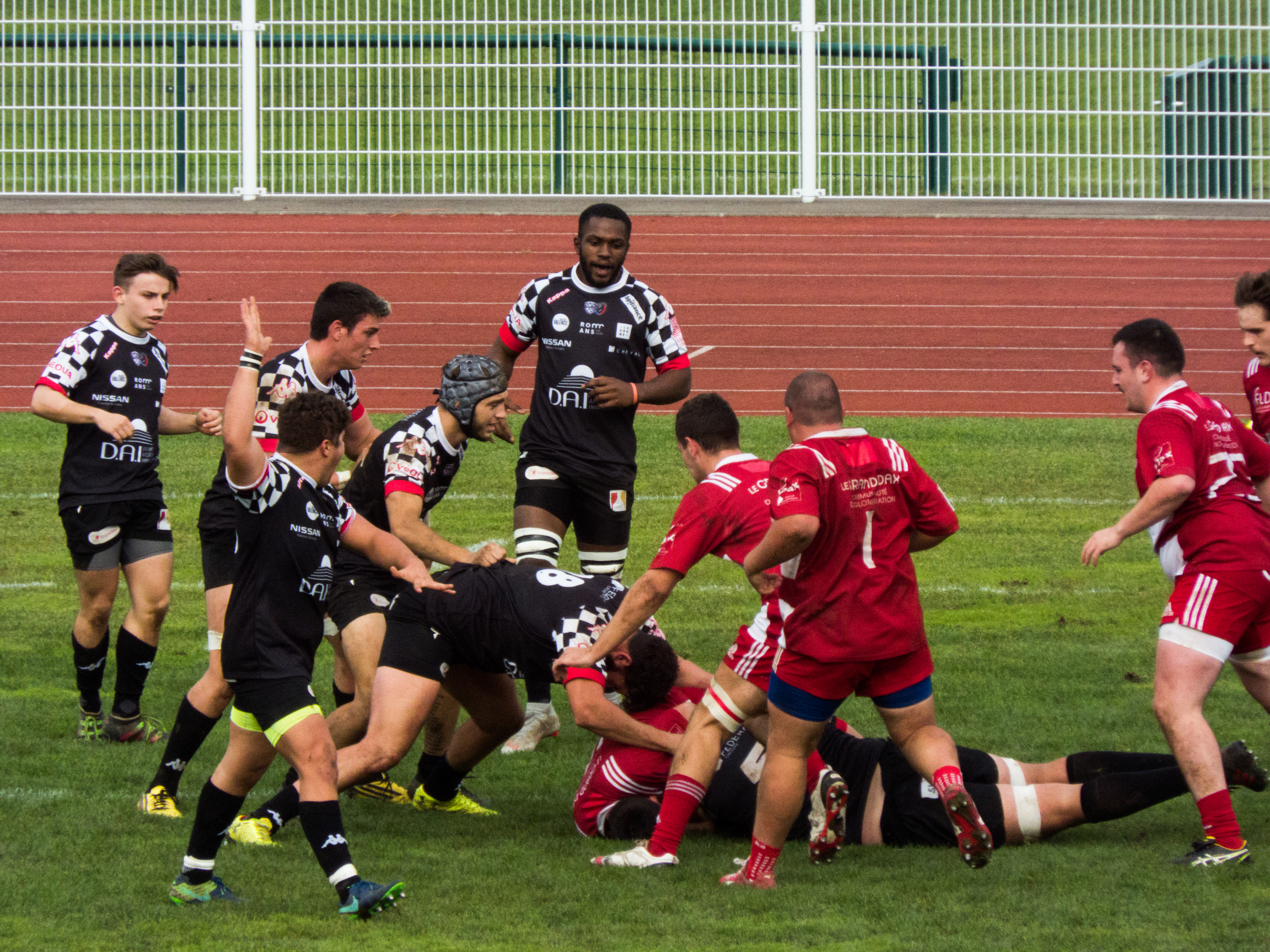 Championnat de France espoirs 2018-2019 (rugby union) — 11 November 2018, stade Colette-Besson. Match between: US Dax — Valence Romans Drôme Rugby